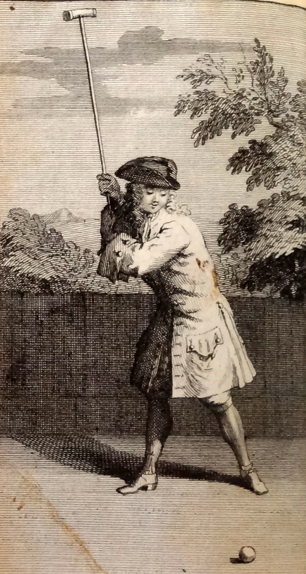 an illustration from Joseph Lauthier's 1717 treatise Nouvelles règles pour le jeu de mail; cropped, fixed perspective, edited contrast